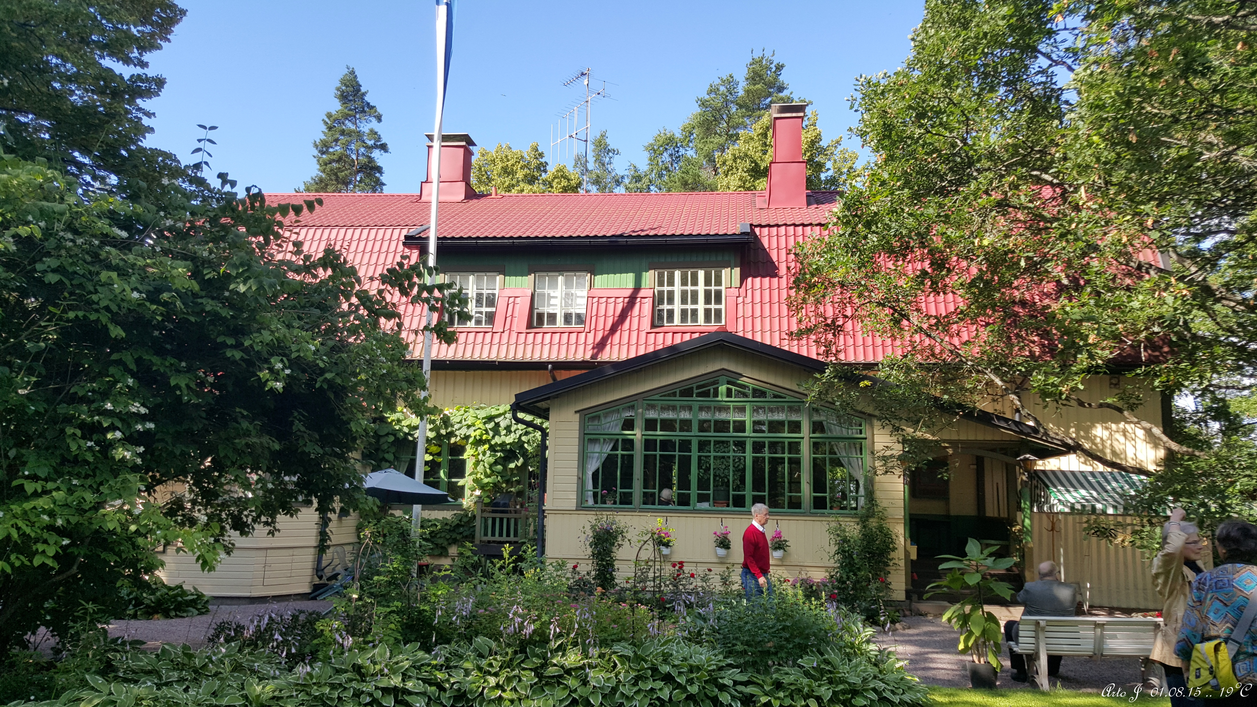 Suviranta - Painter and Professor Eero Järnefelt